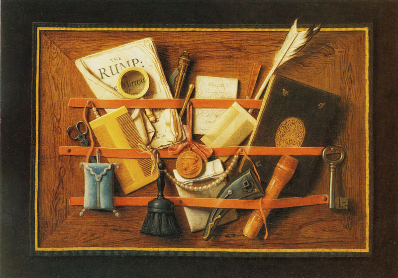 Letter Board